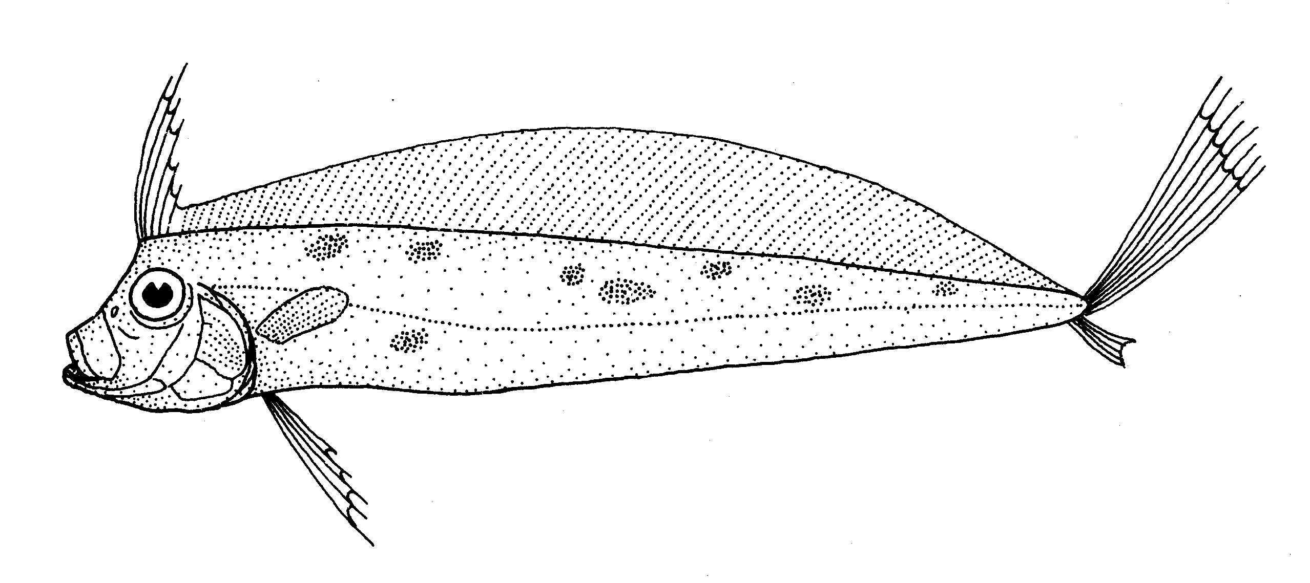 Trachipterus trachypterus (Ribbon fish)